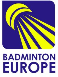 Badminton Europe logo